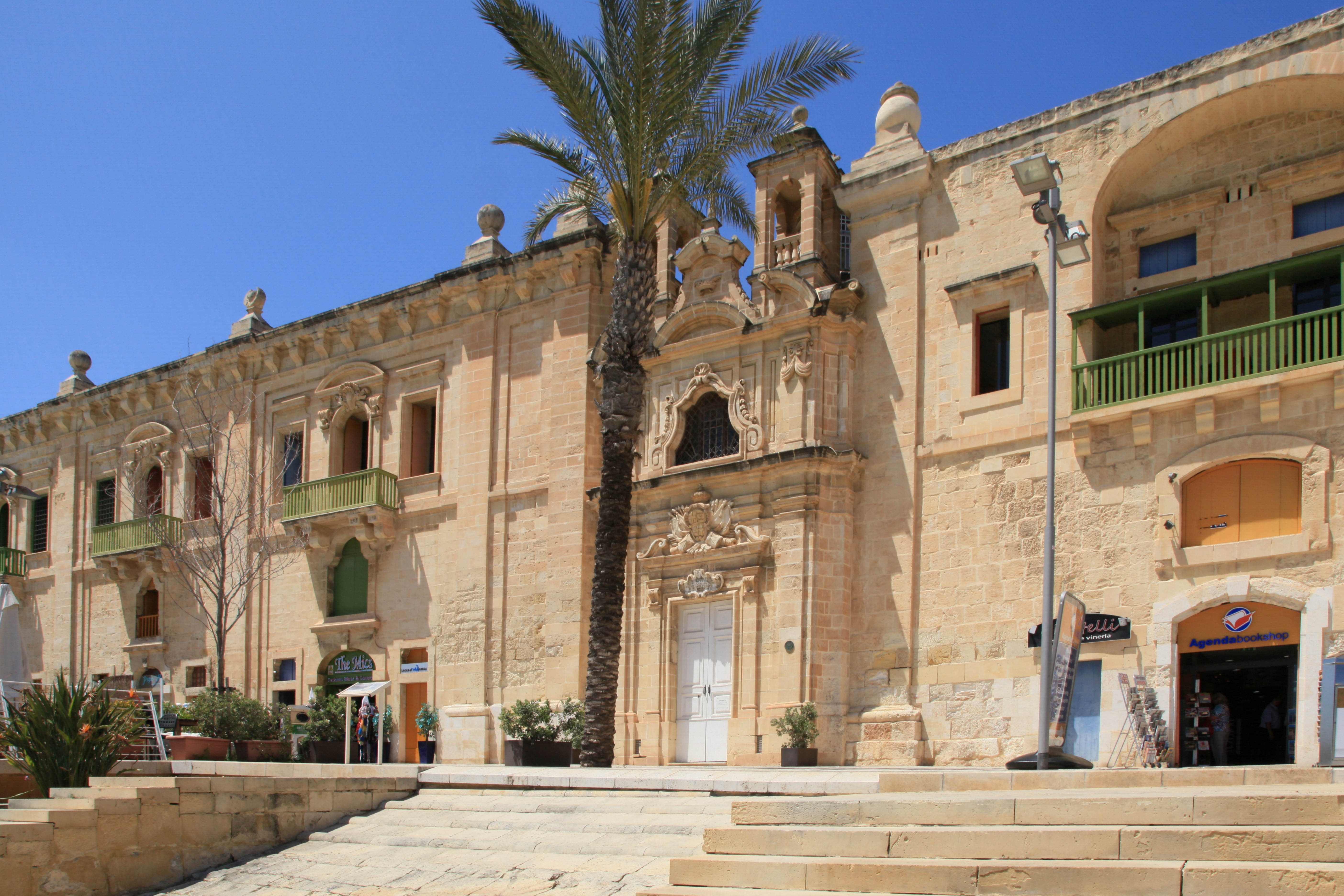 Flight into Egypt Church at Valletta Waterfront in Floriana, Malta